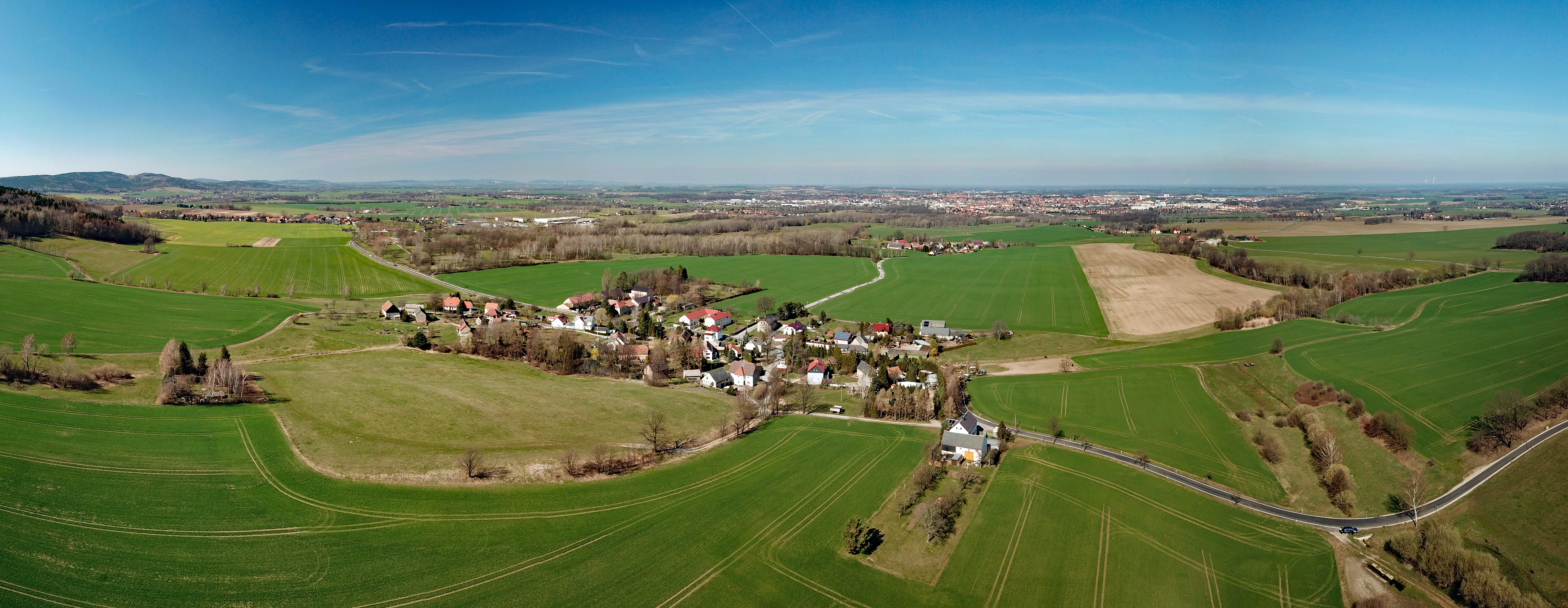 Binnewitz (Großpostwitz, Saxony, Germany) Hornjoserbsce: Powětrowy wobraz Bónjec Dieses Foto wurde mit einem Quadcopter innerhalb der RMZ des Flugplatzes EDAB aufgenommen. Der Flugleiter wurde am Aufnahmetag telephonisch über Ort und Zeit informiert und hat zugestimmt. Der Flug erfolgte auf Grundlage der Allgemeinverfügung der Landesdirektion Sachsen zur Erteilung der Betriebserlaubnis für unbemannte Luftfahrtsysteme und Flugmodelle gemäß § 21a LuftVO und Zulassung von Ausnahmen von Betriebsverboten gemäß § 21b LuftVO für den Freistaat Sachsen.